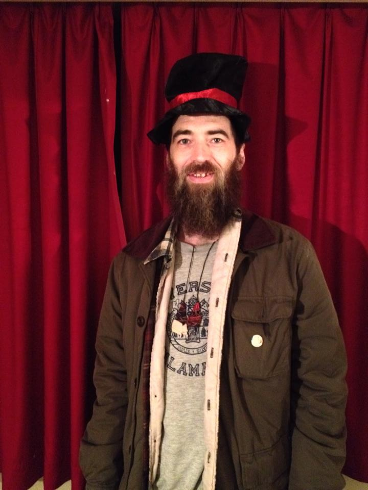 A photo of Canadian artist Brad Phillips, taken in 2014.